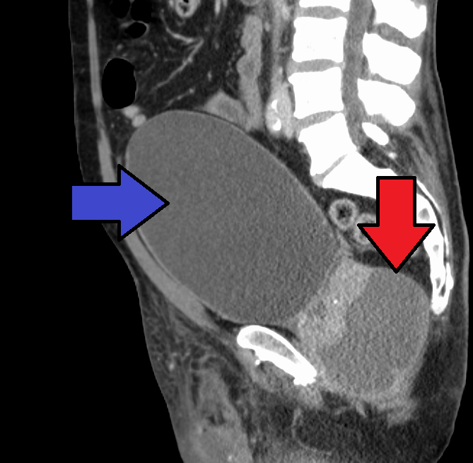 Abscess of the prostate resulting in urinary retension